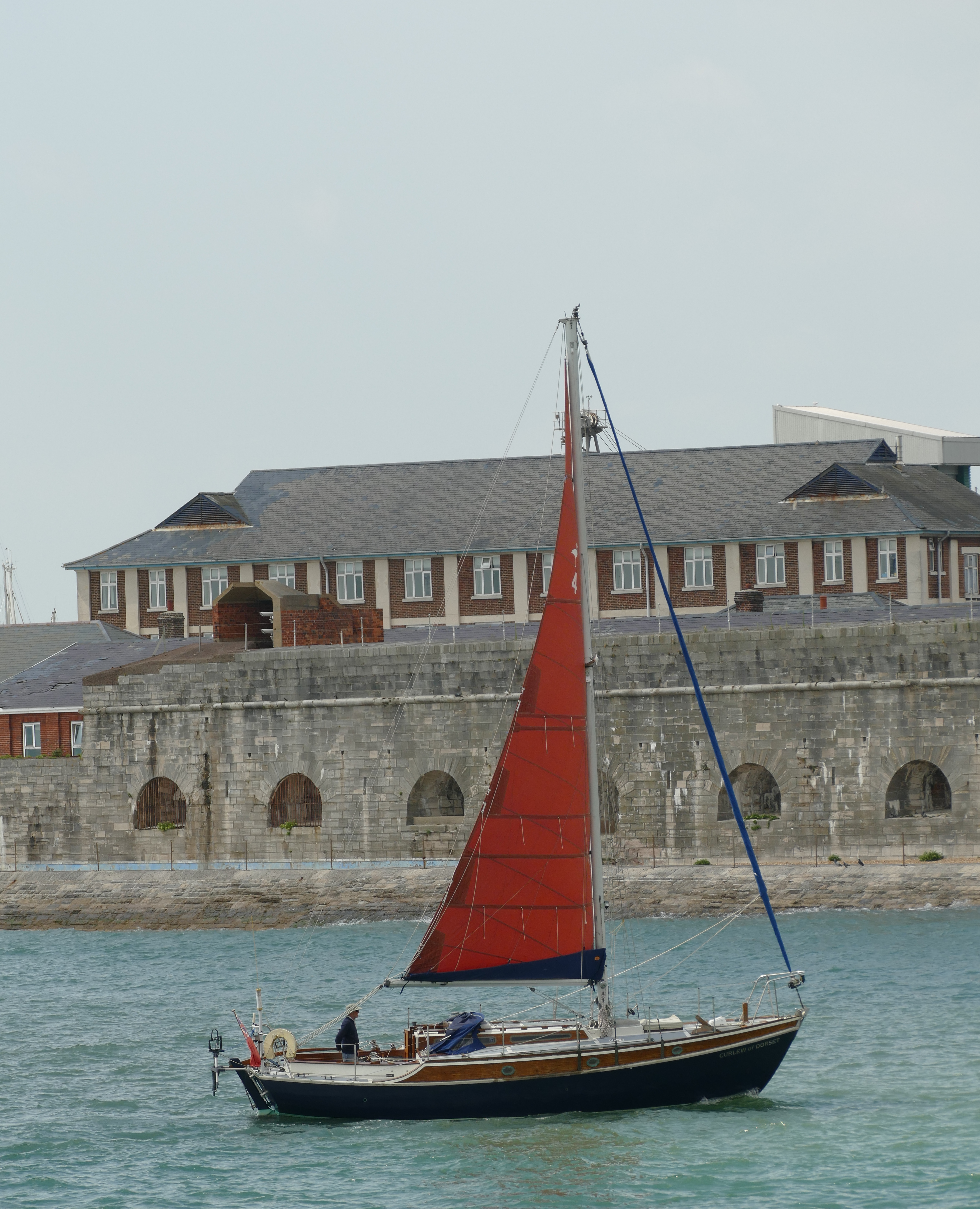 Porstmouth harbour activity.